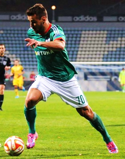 Orlando Sá